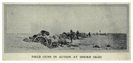 Royal Artillery field guns in action at the Battle of Sheikh Sa'ad in 1916.